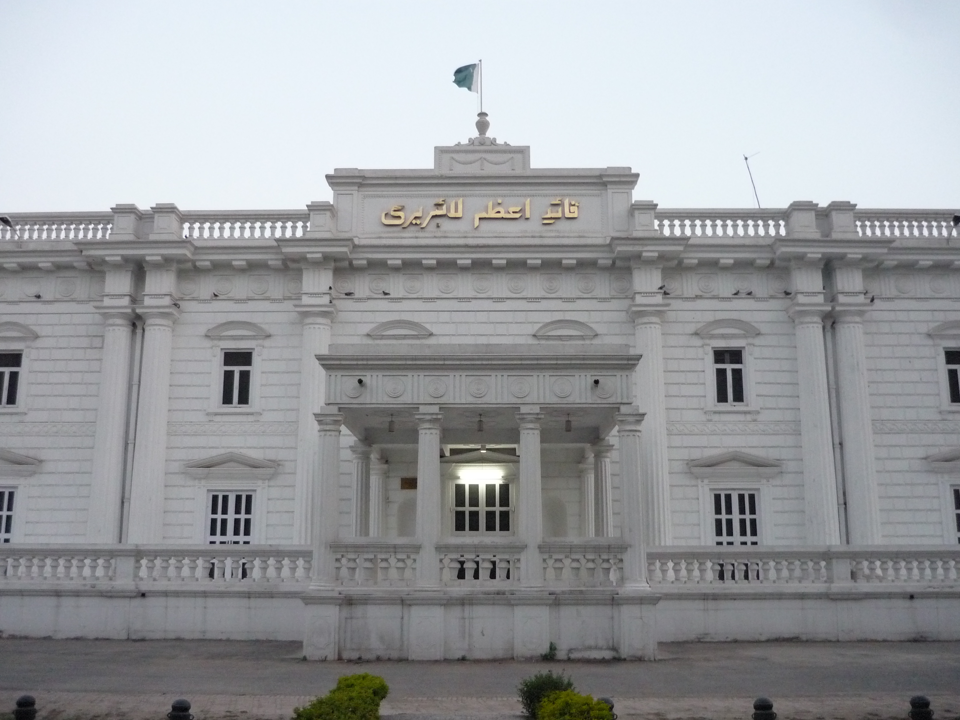 Quaid-e-Azam Library in Lawrence Garden Lahore, Pakistan (new building)